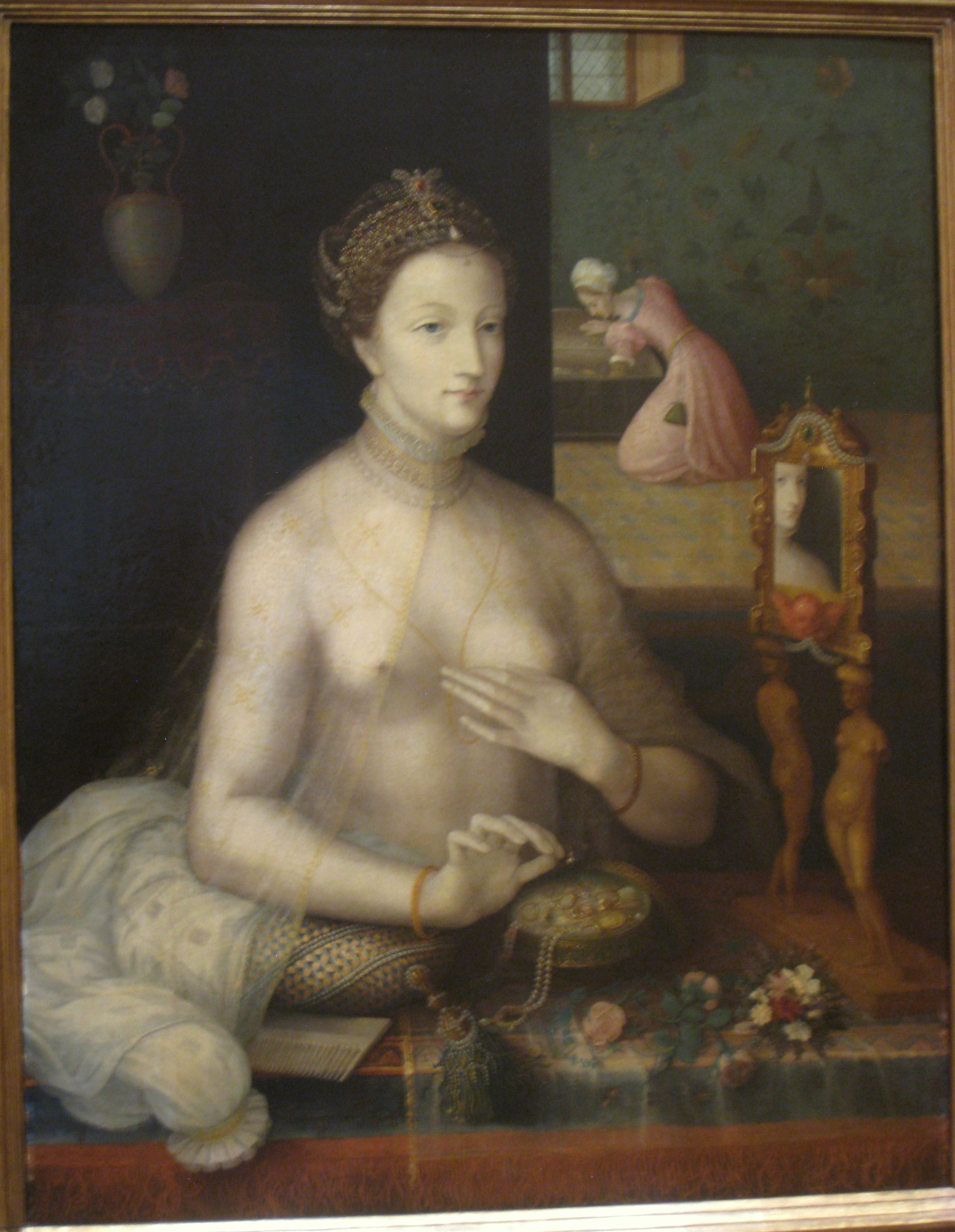 Woman at her Toilette, by the School of Fontainebleau, 1550-1570, in the Worcester Art Museum, Worcester, Massachusetts, USA. The museum permits photography and does not restrict usage of the photographs.